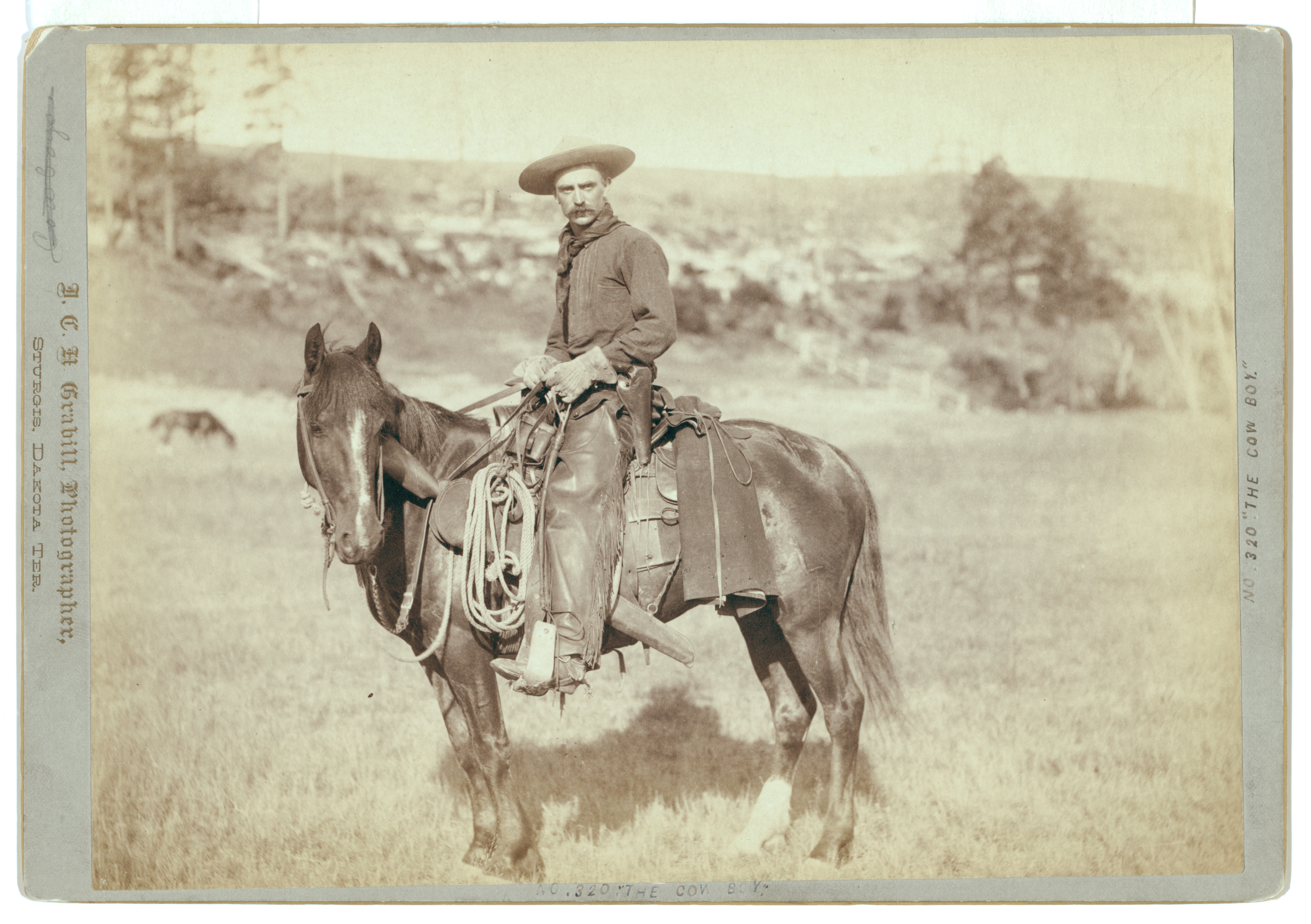 Photograph shows side view of a cowboy on a horse, looking towards the camera.